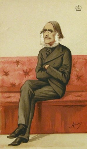 Caricature of William Mansfield, 1st Baron Sandhurst. Caption read "Military advice".